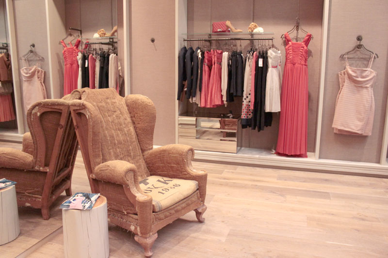 MANGO store Passeig de Gracia, Barcelona